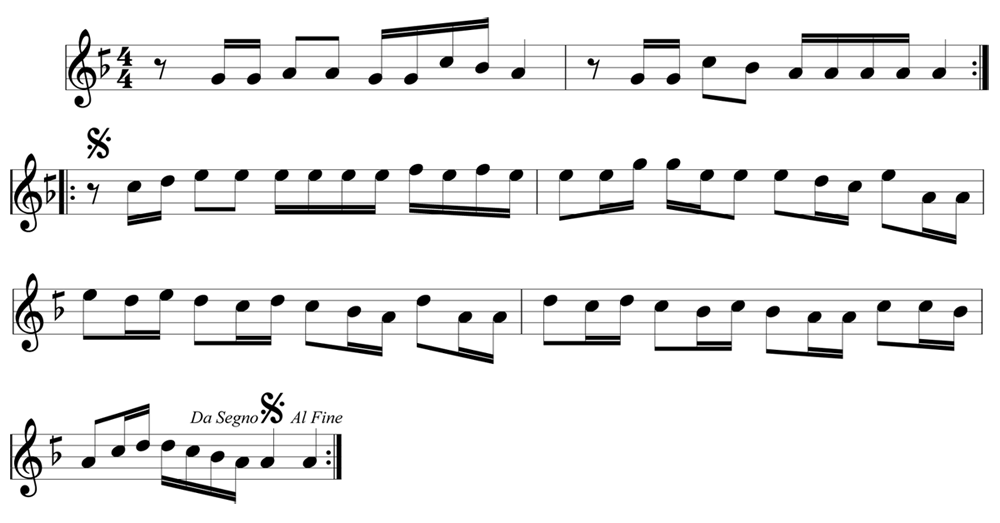 Kurdish Folk song on beyat Meqam Kurdî: بۆچی ناپرسی حاڵم (گۆرانی فولکلۆری کوردی لە سەر مەقامی بەیات)